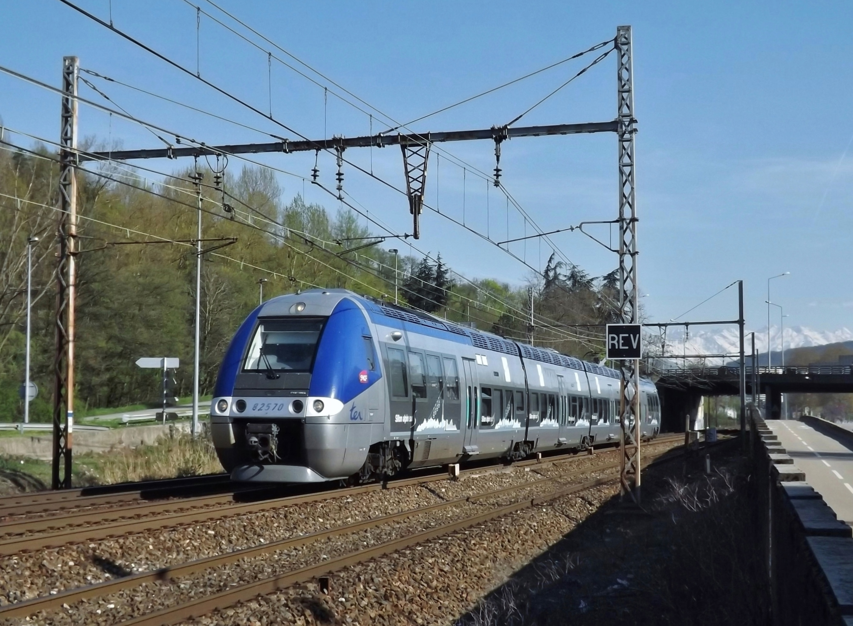 French regional train coming from Grenoble and bound for Annecy has here just left city of Chambéry railway station in Savoie.